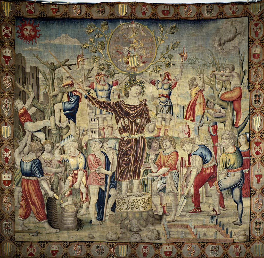 March (the first month, according with the Roman calendar). One among the so-called Trivulzio tapestries (1503-1509), created for Gian Giacomo Trivulzio upon drawings by Bramantino, now in the museum of the Castello Sforzesco in Milan, Italy.